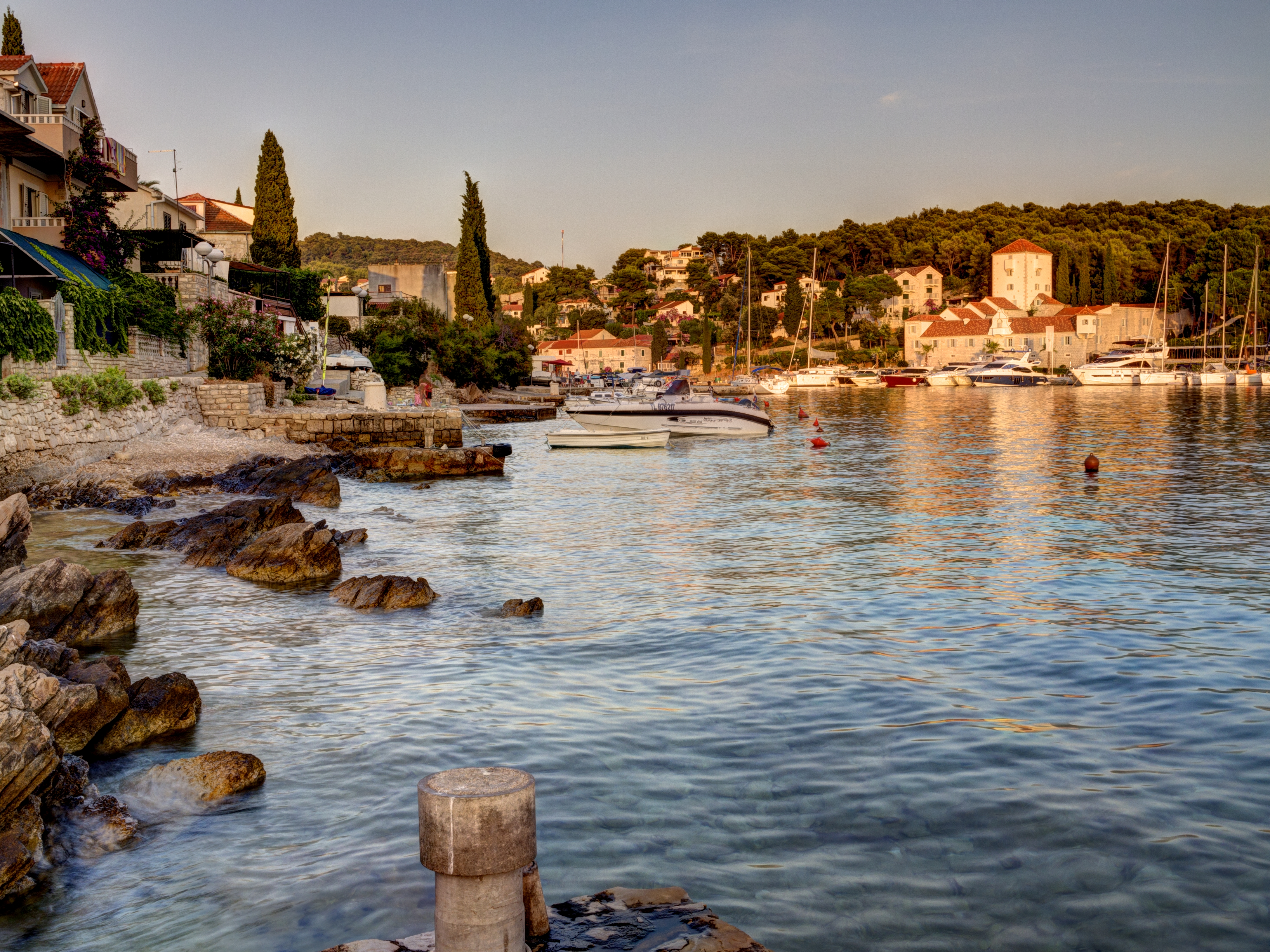 The Port of Maslinica on the island Šolta / Croatia / Adriatic Sea / EU. Atmosphere at sunset, looking towards the south. In the background on the southern shore of the harbor is the Castle Martinis Marchi, built by Petar brothers (1706-1708), now a luxury hotel.